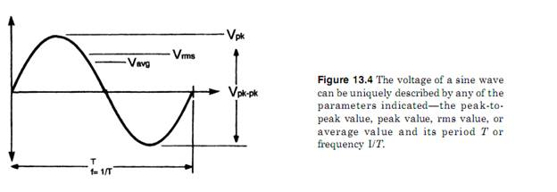 The voltage of a sine wave